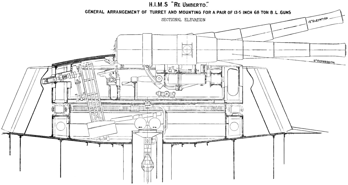 Right elevation diagram of 13.5-inch 30-calibre gun barbette of Italian Re Umberto class battleships Sicilia, Re Umberto and Sardinia.